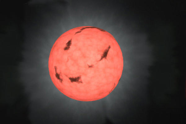 Snapshot and fix of an artists impression of a late M-star, L-star and a T-star.